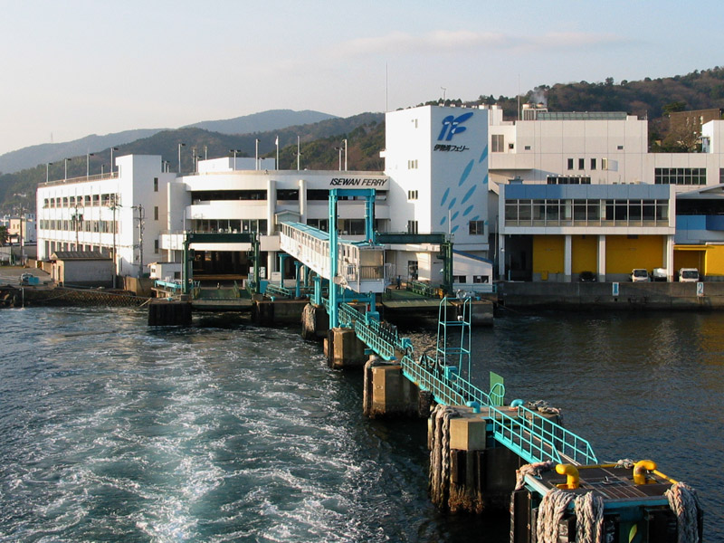 The Toba port ferry terminal of Isewan-ferry 伊勢湾フェリー 鳥羽ターミナル 三重県 鳥羽市の鳥羽港にて撮影